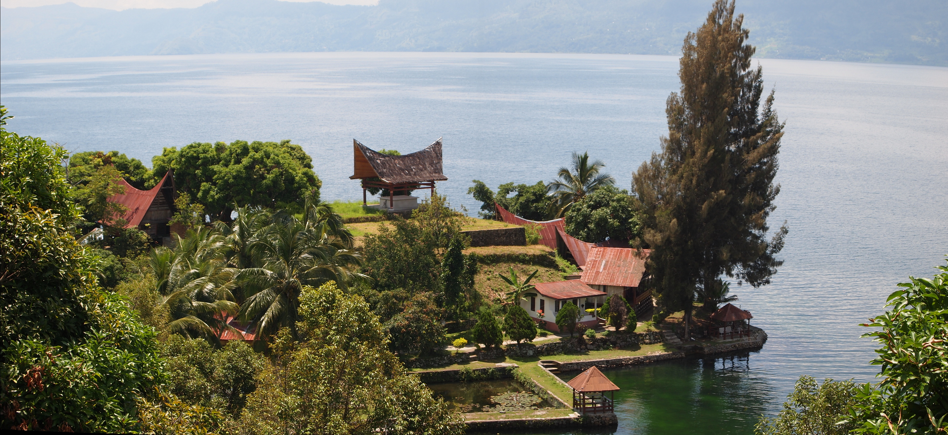 Example of Batak architecture beside the lake near Ambarita.